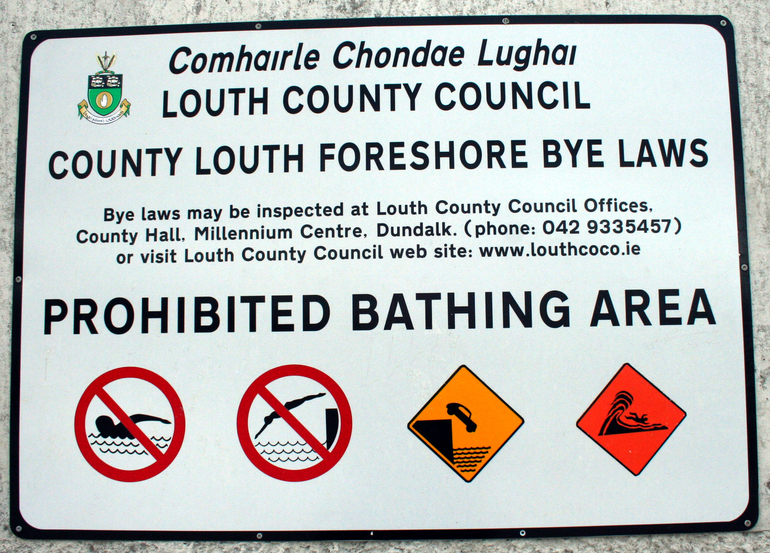 Foreshore Bye Laws sign, County Louth